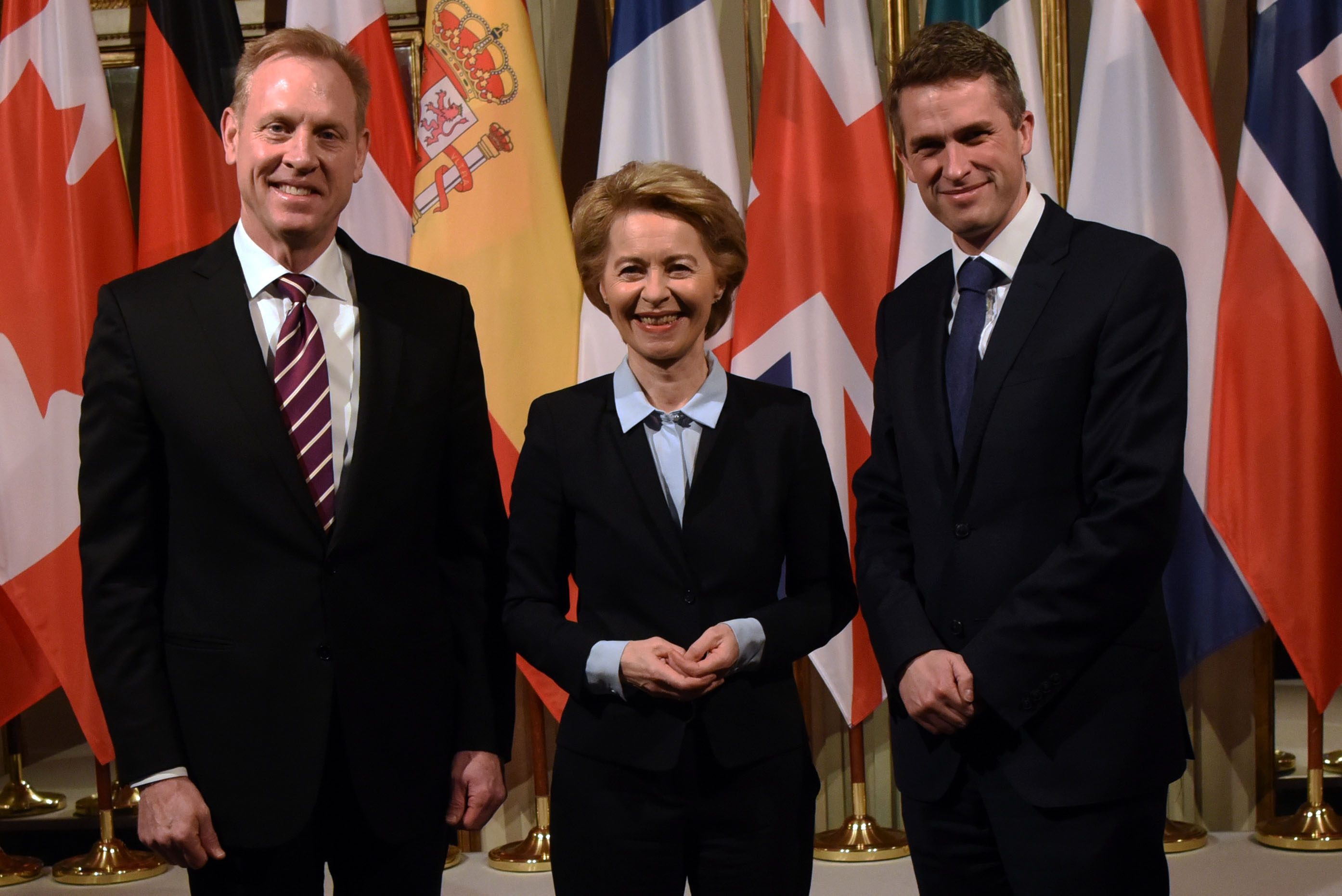 U.S. Acting Secretary of Defense Patrick M. Shanahan, German Minister of Defense Ursula von der Leyen, and UK Defense Minister Gavin Williamson are seen at the start of a defeat-ISIS ministerial, Munich, Germany, Feb. 15, 2019. (DoD photo by Lisa Ferdinando)